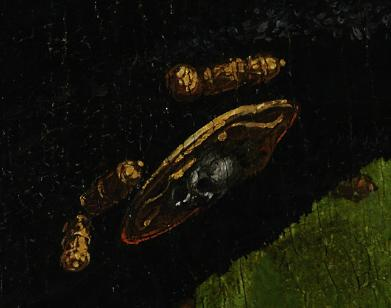 Holbein Ambassadeurs detail broche beret